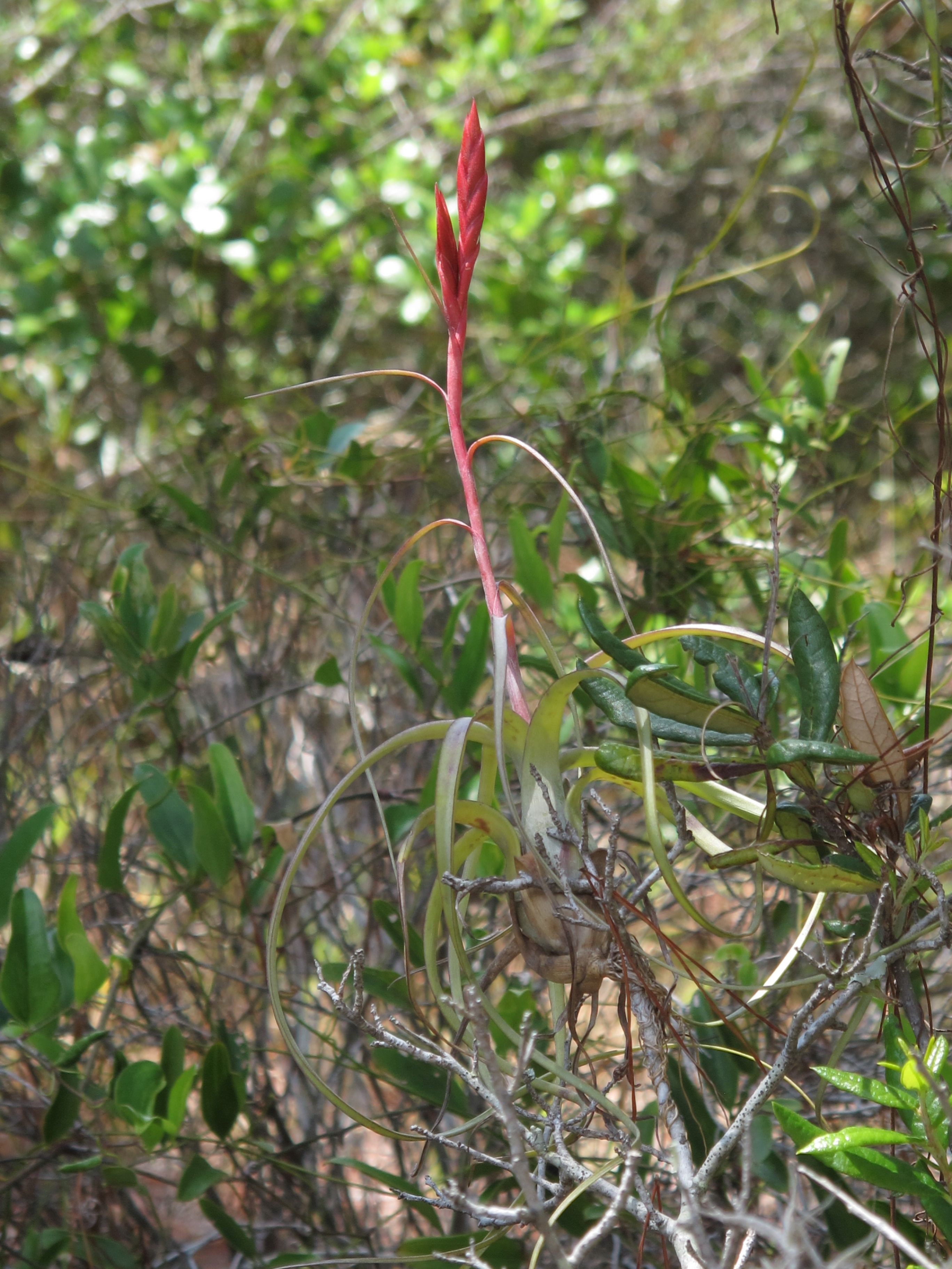 Crystal Lake Sand Pine Scrub, Broward Co., Florida, USA. Epiphytic on Quercus sp.